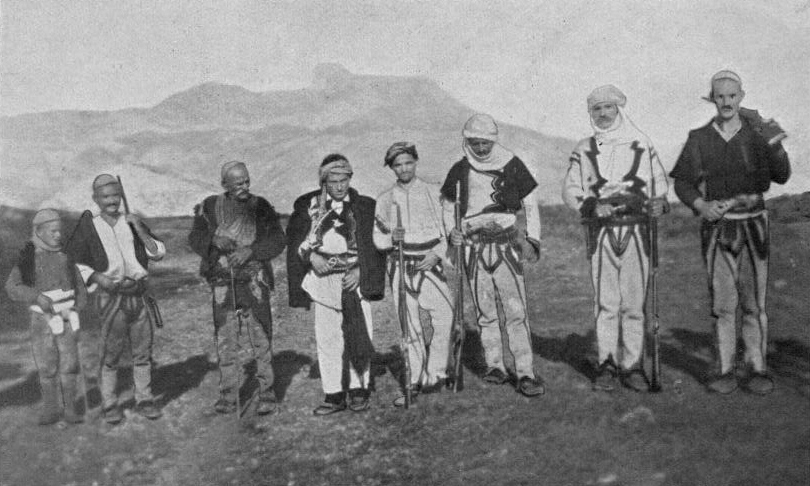 Original description: "Among the Skreli: Lûk (first on the right) and his friends"